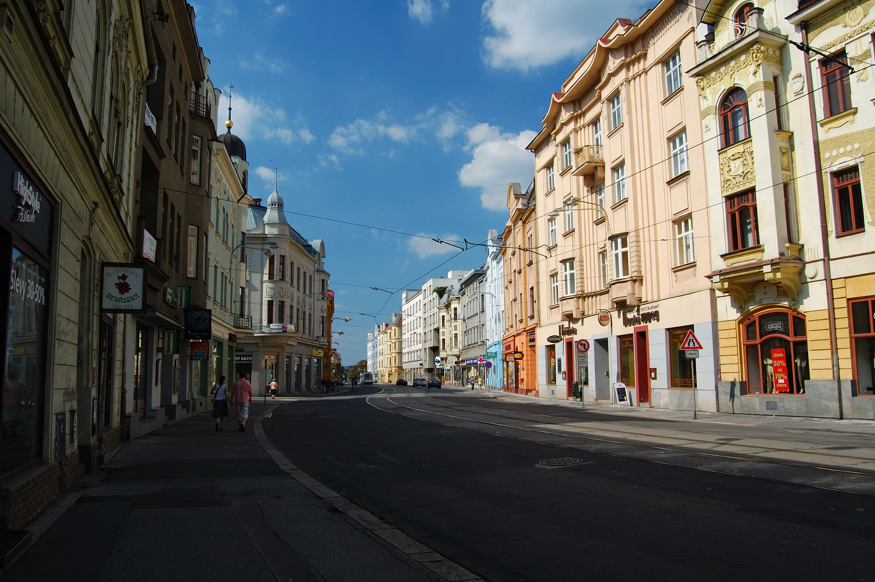 Nádražní (railway station) street in Ostrava, Czech Republic.